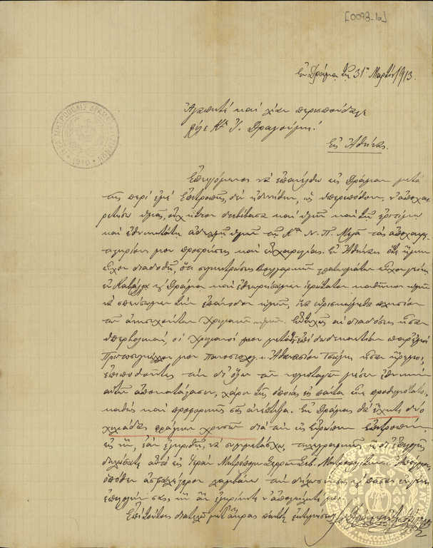 Agathangelos_of_Drama_Letter_to_Ion_Dragoumis